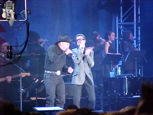 George Michael and Garth Brooks at the Equality Rocks concert held on April 29, 2000 at the Robert F. Kennedy Memorial Stadium in Washington, D.C., USA.